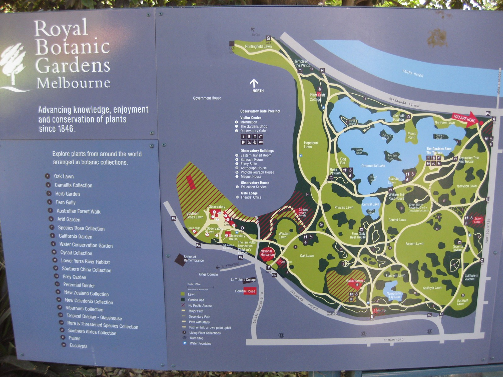 Photographed at the Royal Botanic Gardens Melbourne (Australia) in December